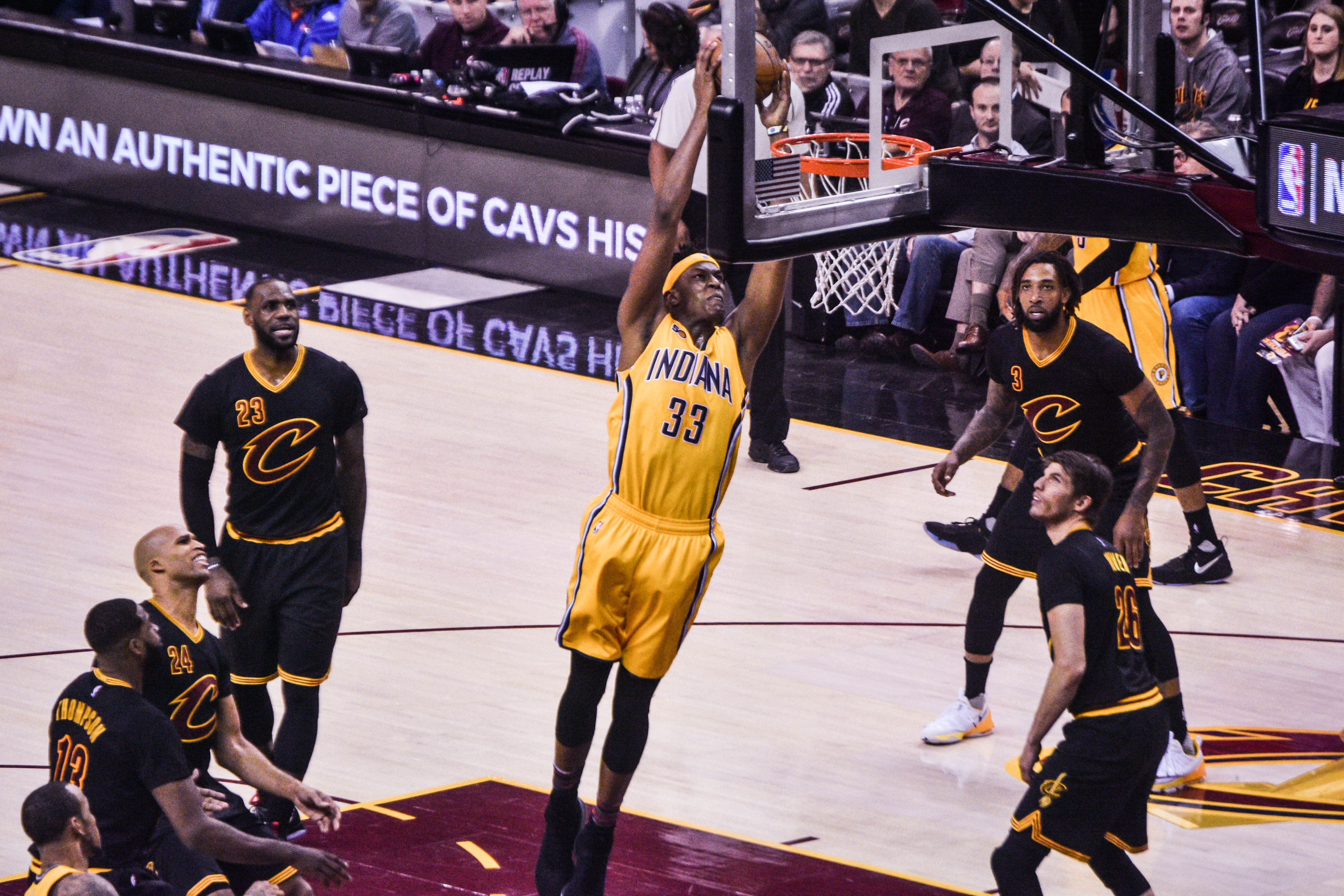 Cleveland Cavaliers vs. Indiana Pacers